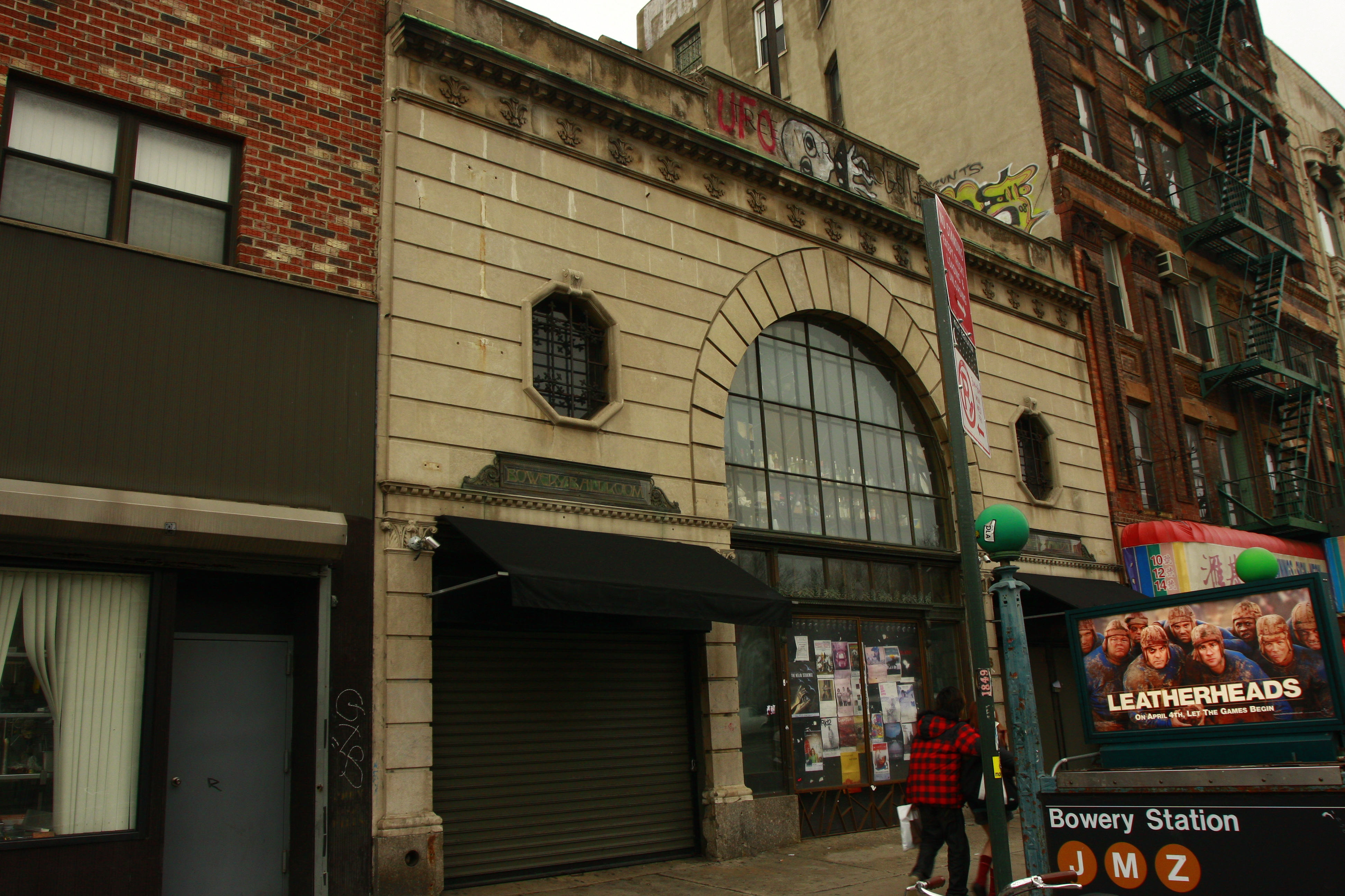 This photo is of Wikipedia Takes Manhattan location code 138, Bowery Ballroom.